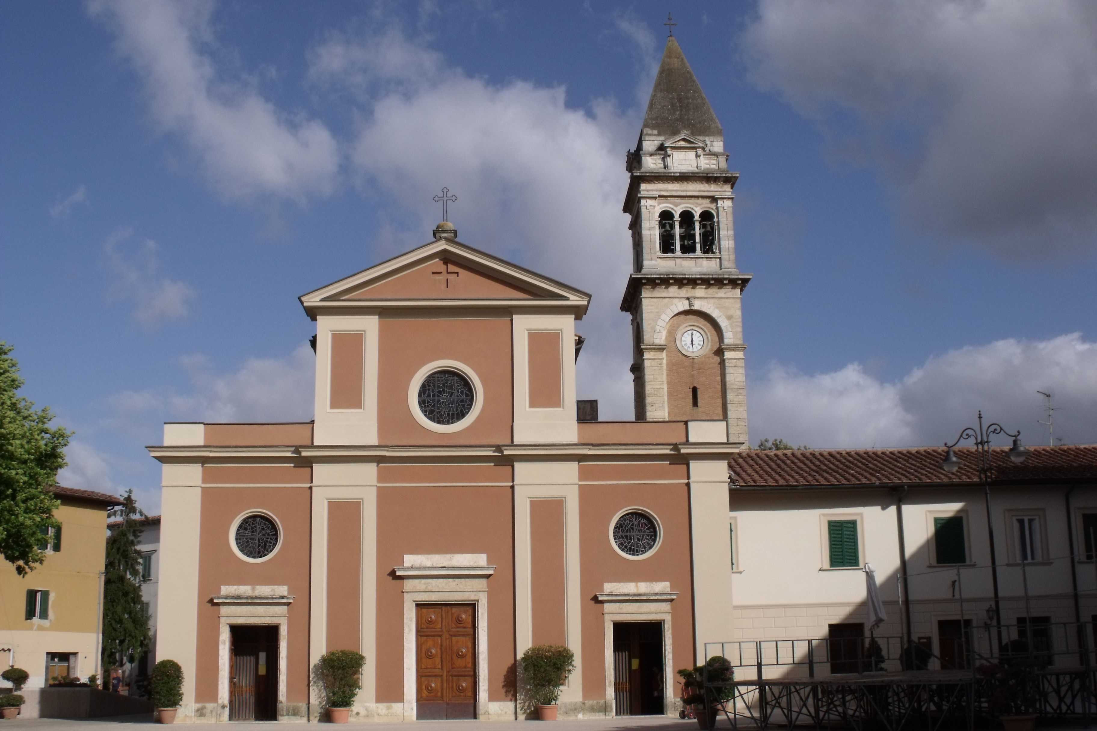 Church Chiesa di Santa Maria Assunta in Casciana Terme, Province of Pisa, Tuscany, Italy